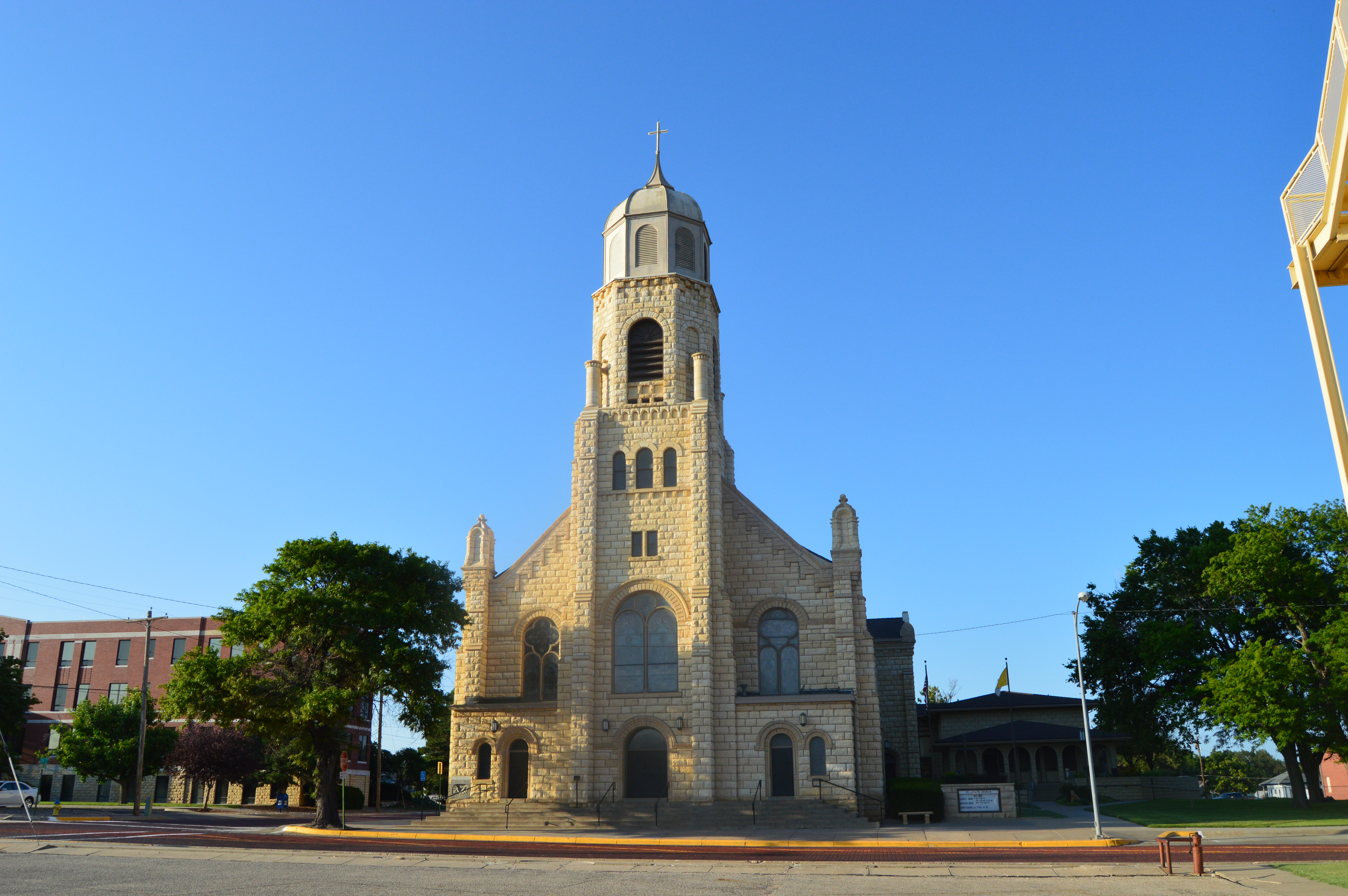 St Josephs Church and Parochial School in Hays, Kansas